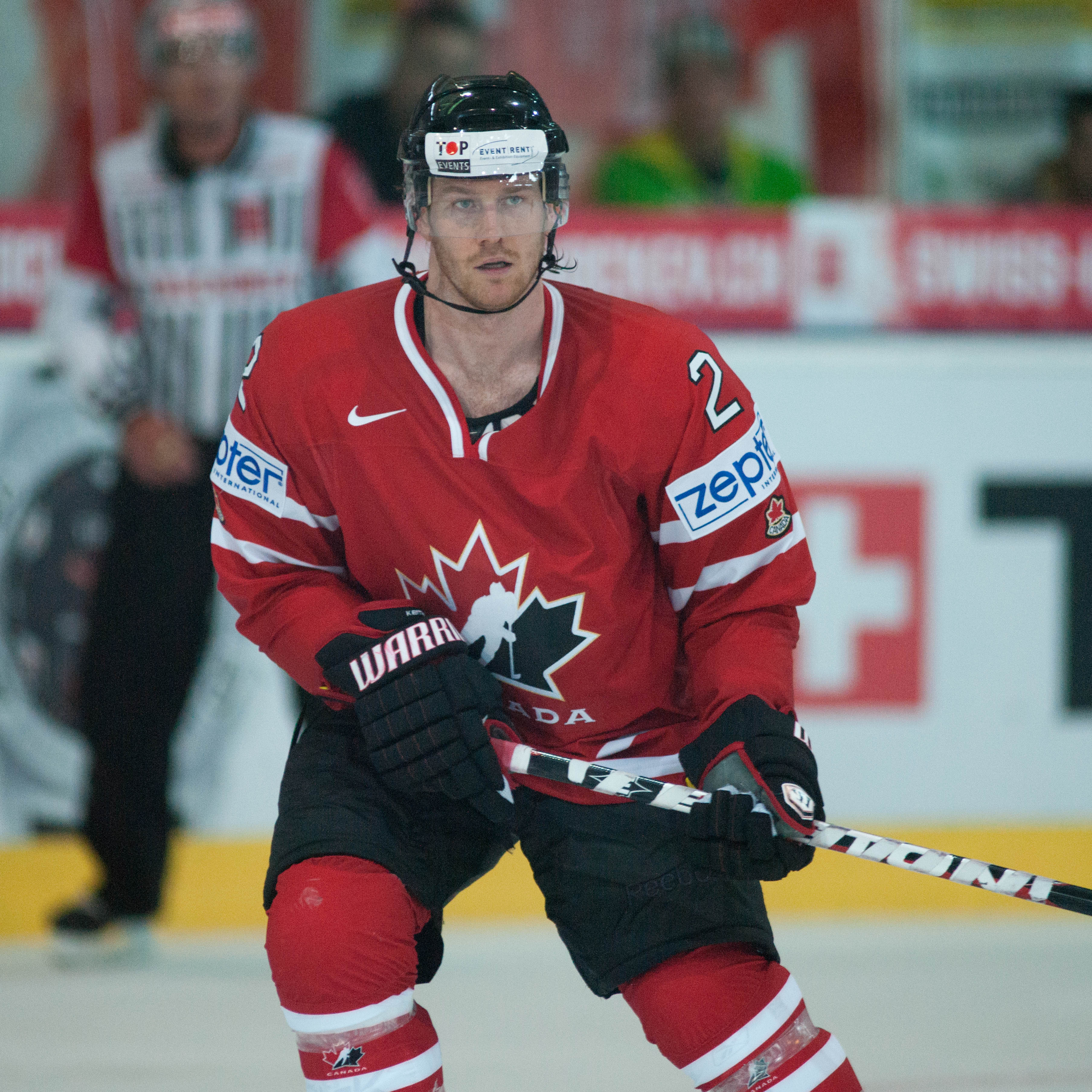 Switzerland vs. Canada, 29th April 2012